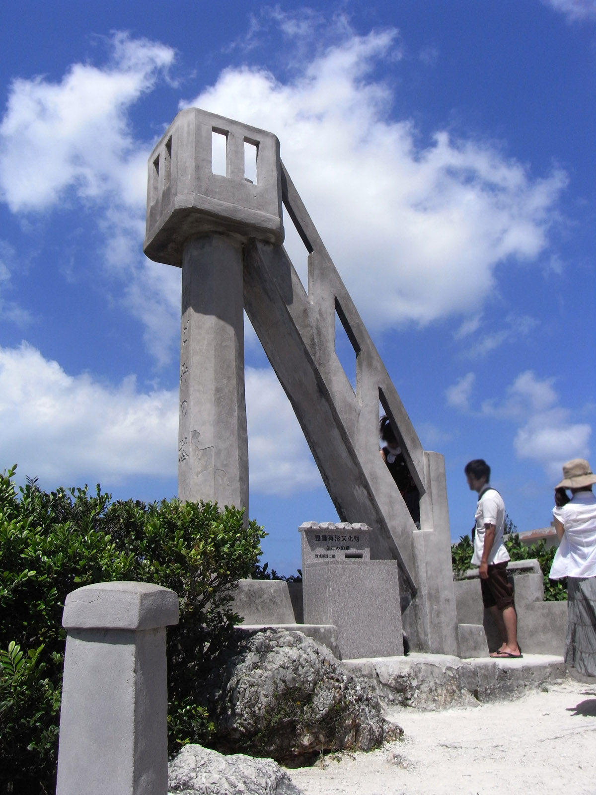 Nagomi no Tou, Taketomi, Okinawa, Japan